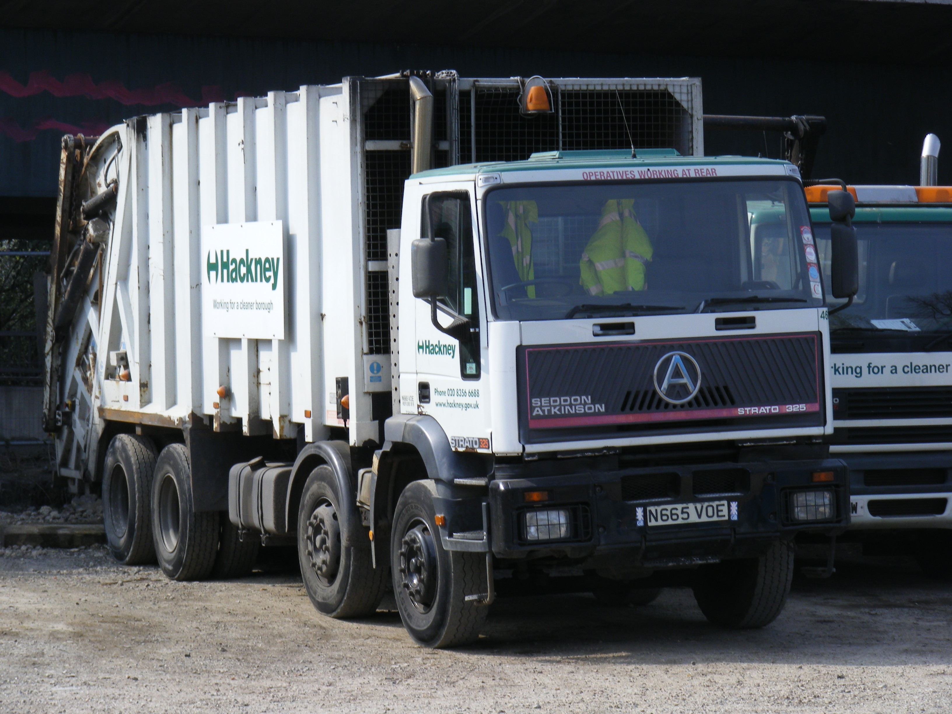 Parked in the temporary yard at Hackney Wick whilst the Power station yard was taken over for work on the transforming station. I like the phrase "operatives working at rear" - could also be "workers operating at rear"! Or even Operatives operating at rear.